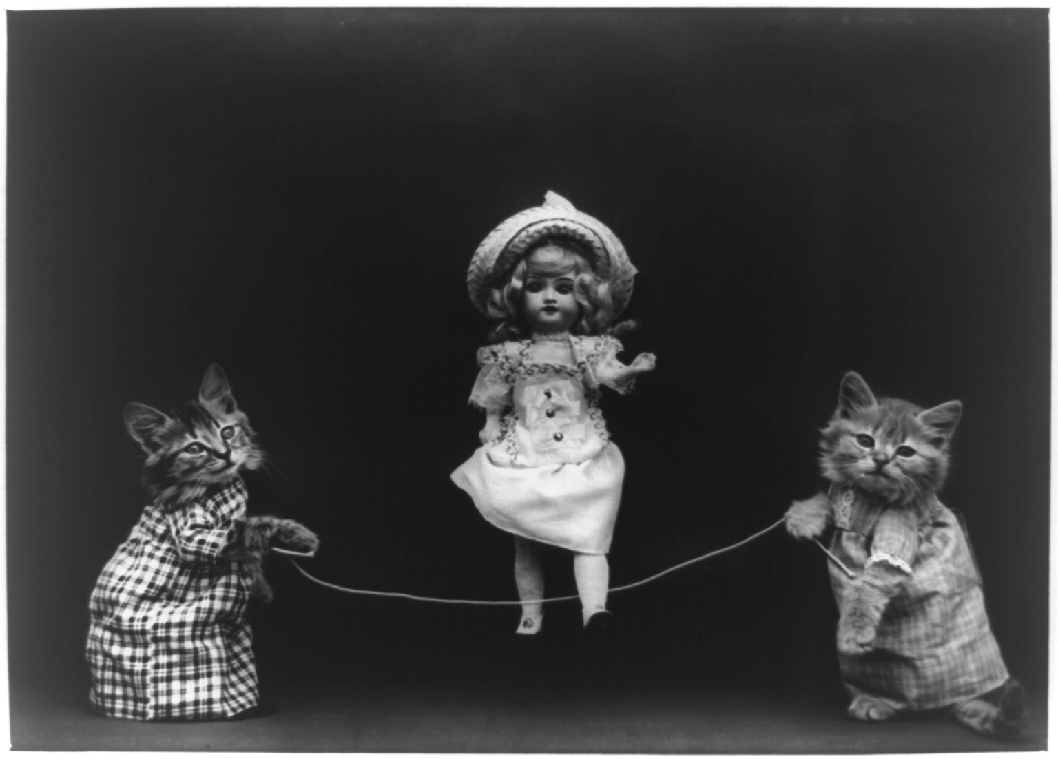 Title: "Playtime". Two cats in human dress holding rope, which doll appears to be skipping.